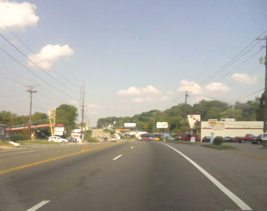 Along Chapman Highway in Knoxville, Tennessee, located in the South Knoxville neighborhood.